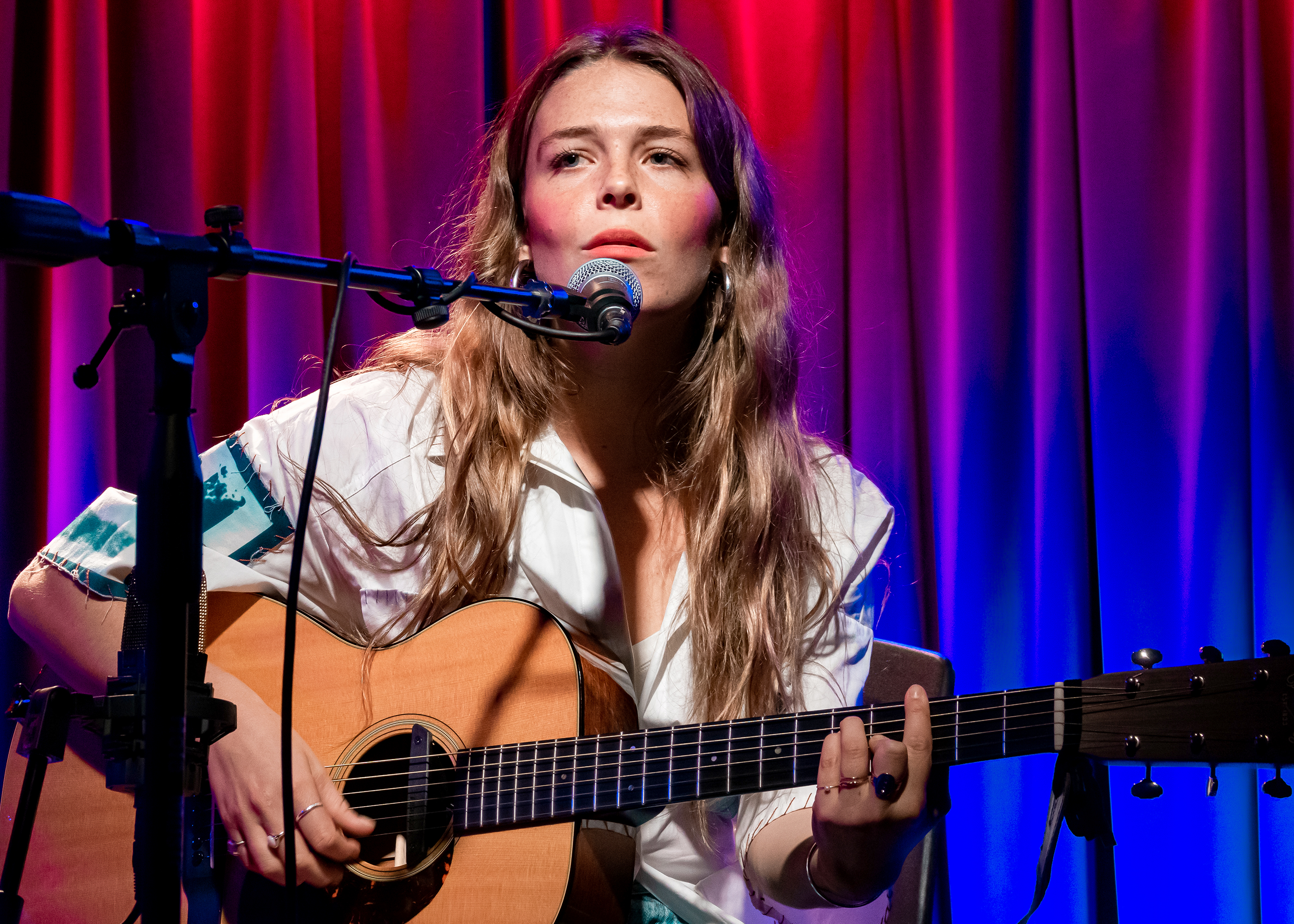 Maggie Rogers performing live at the Grammy Museum in Los Angeles on 09/15/2019.